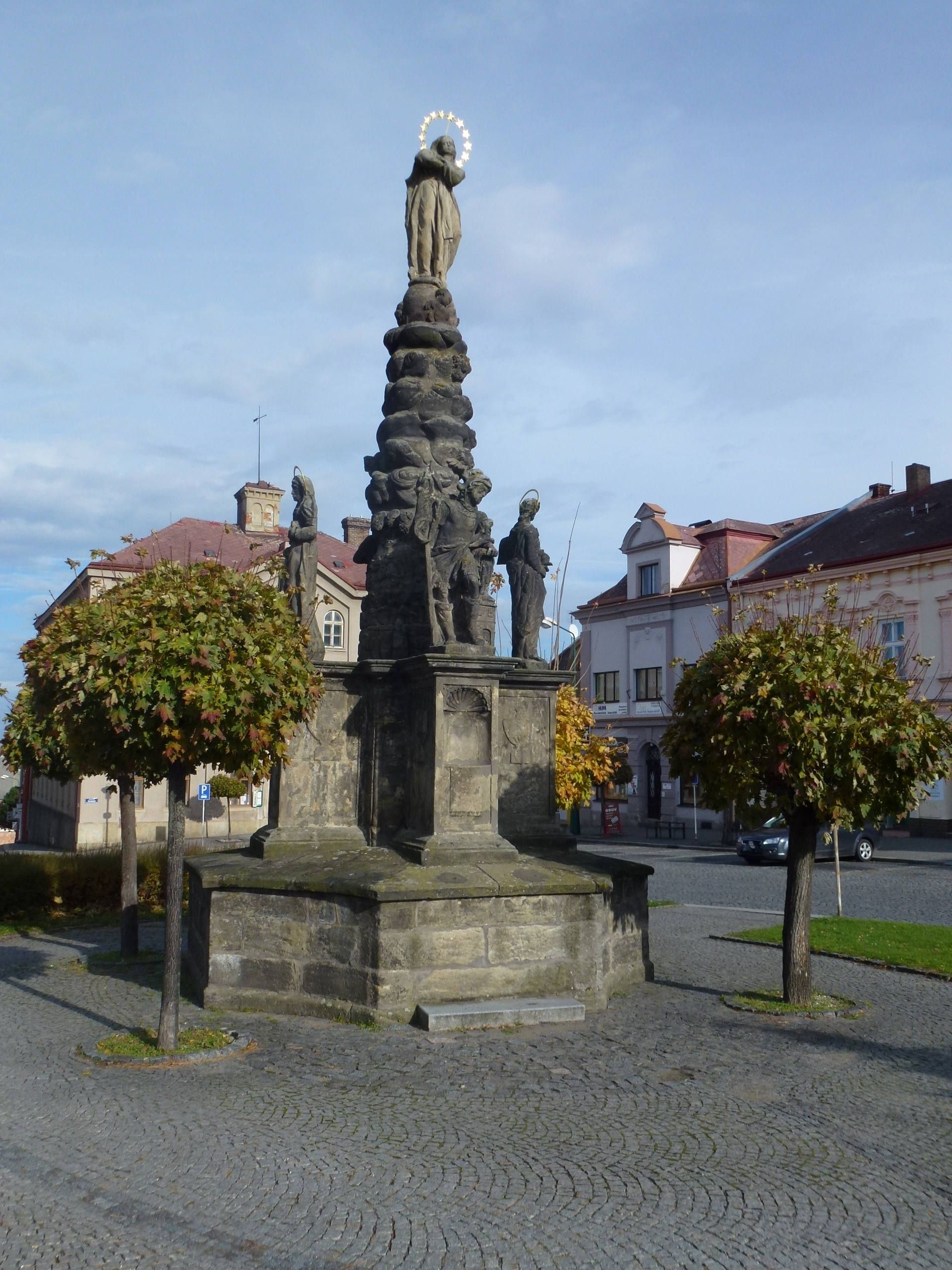 Marian Column in Skuteč.